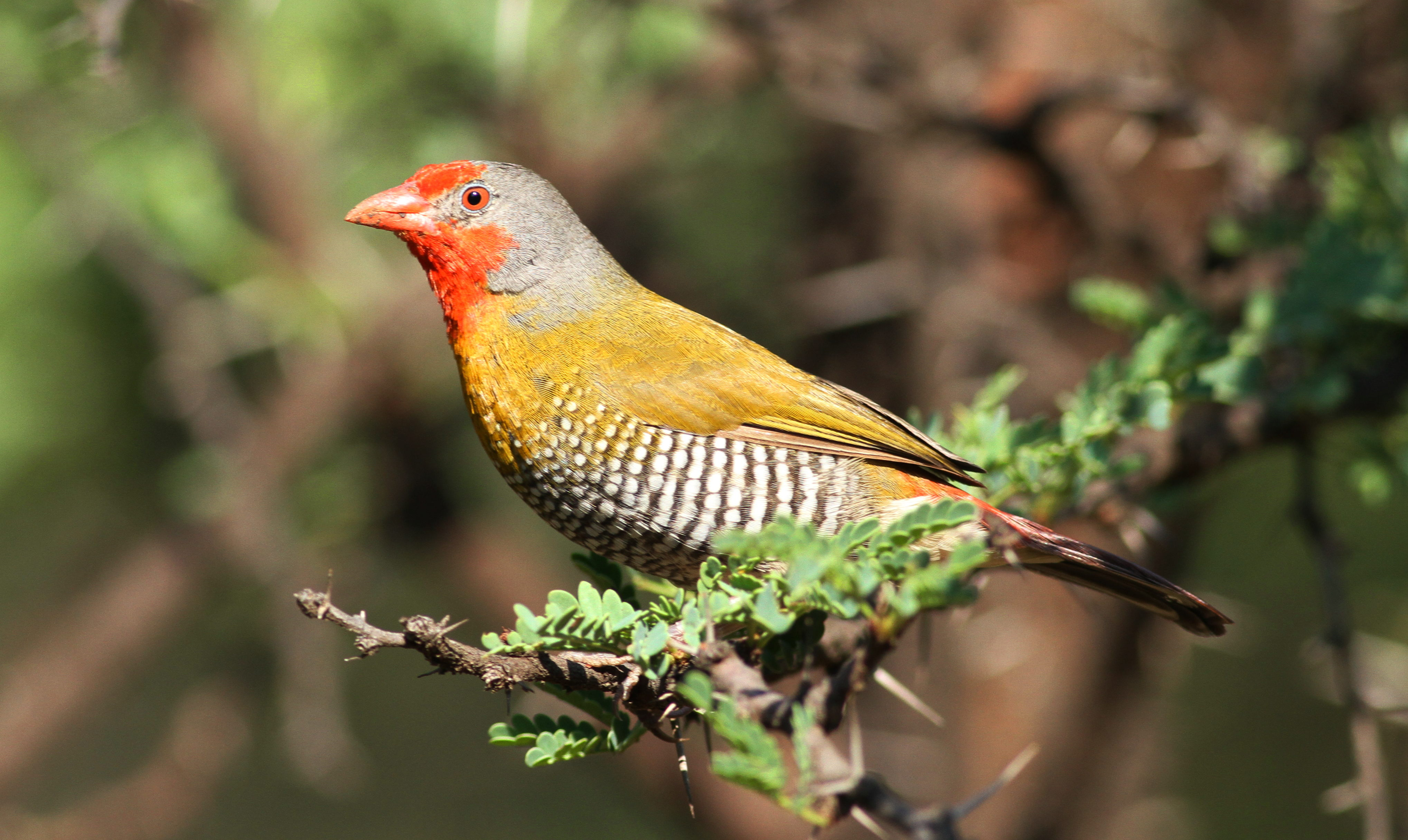 Green-winged Pytilia, Pytilia melba at Pilanesberg National Park, Northwest Province, South Africa